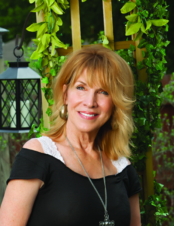 Photo by Larry Fleming, Photographer